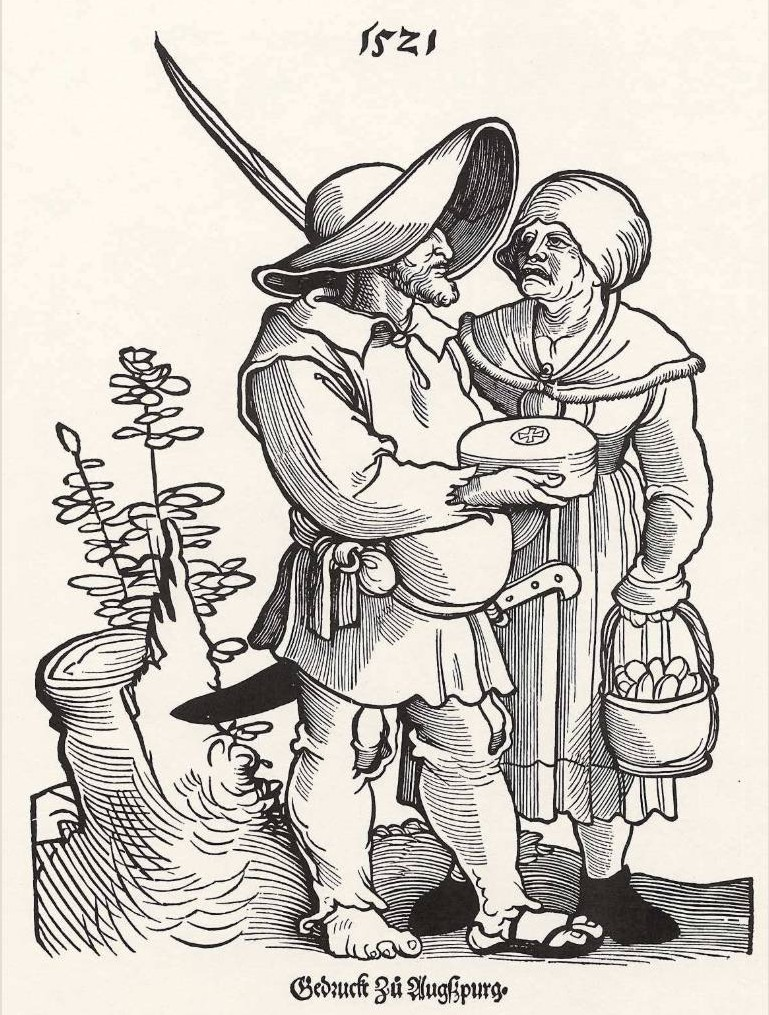 Cheese farmer and his wife